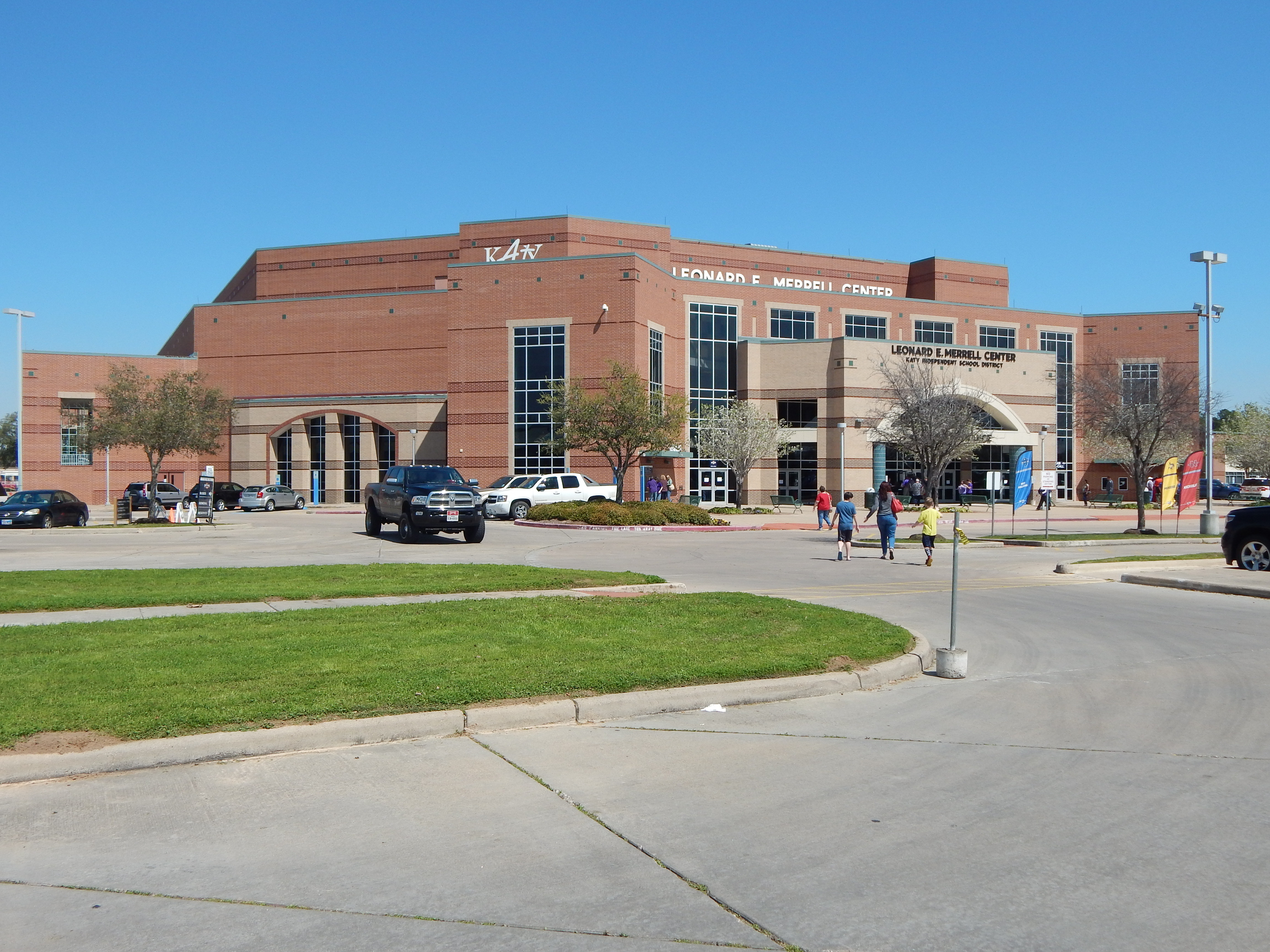 South Entrance to Merrell Center